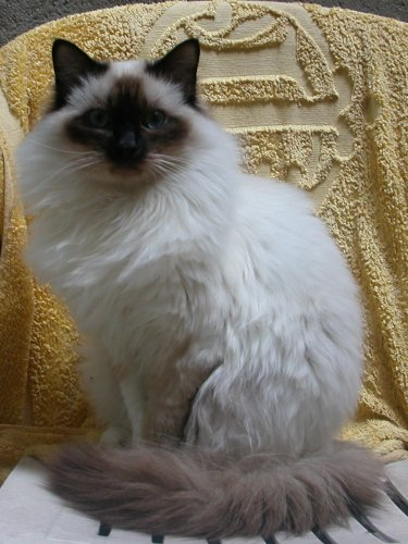 Seal colourpoint Birman cat.